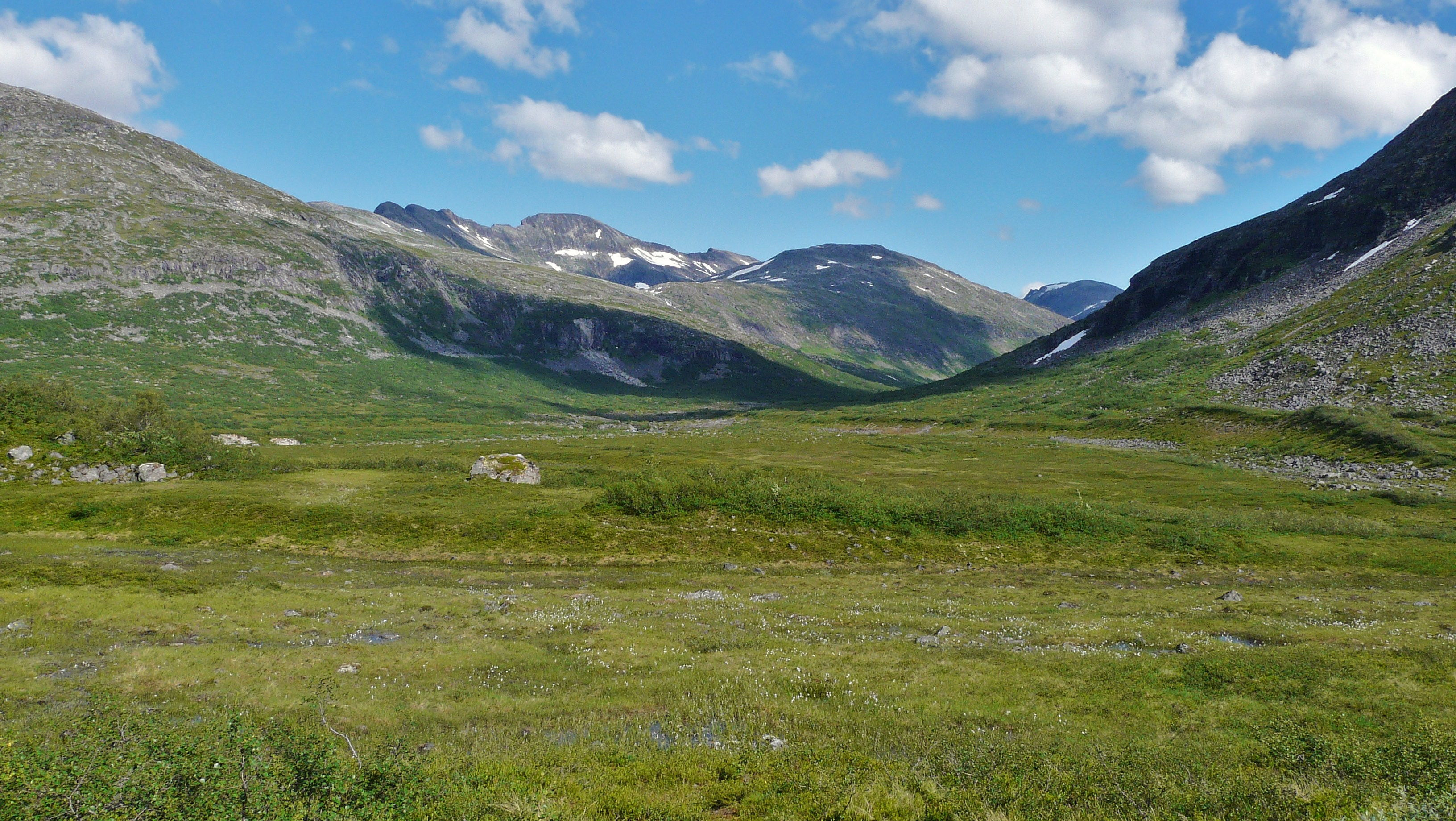 A view to Langfjelldalen from the Riksvei 63 road in 2008 August.